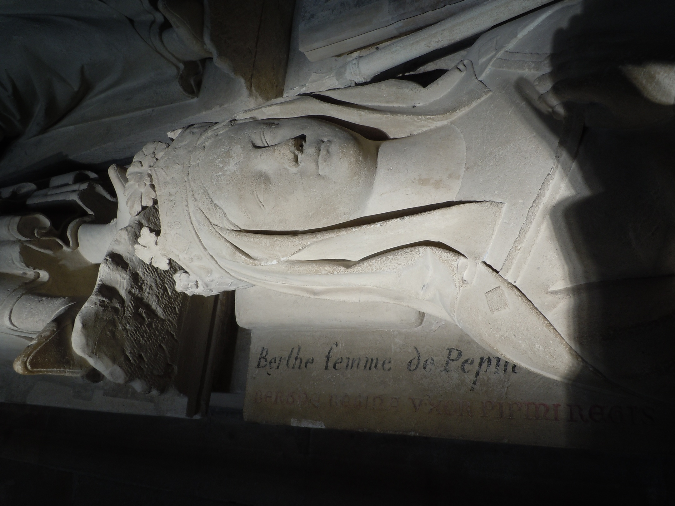 Detail of effigy of Queen Bertrada de Laon in the Basilica of Saint-Denis, Paris, France